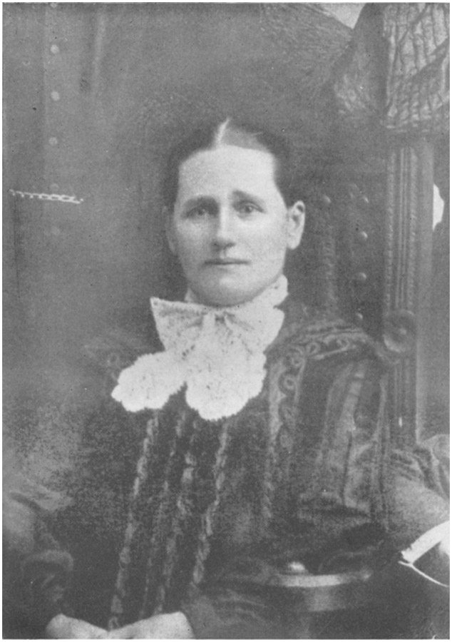 Johanna Brandt's mother... Mrs Van Warmelo. Johanna lived from 18 November 1876 in Heidelberg / Transvaal–13 January, 1964 in Nuweland) was a South African Propagandistin of African nationalism, spy in the Boer War, prophetess and writer.